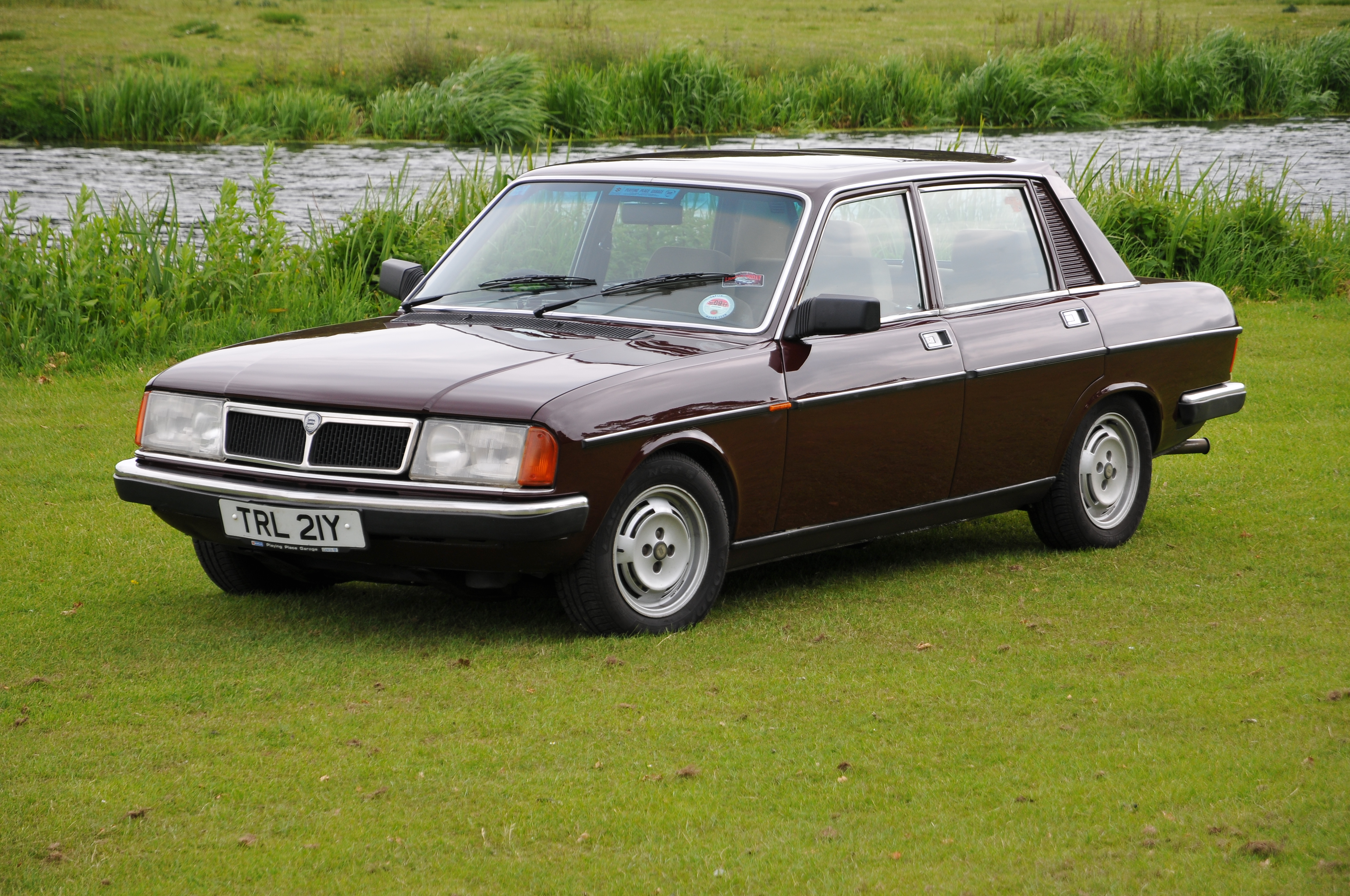 1983 Lancia Trevi at AutoItalia, Stanford Hall UK, June 2011